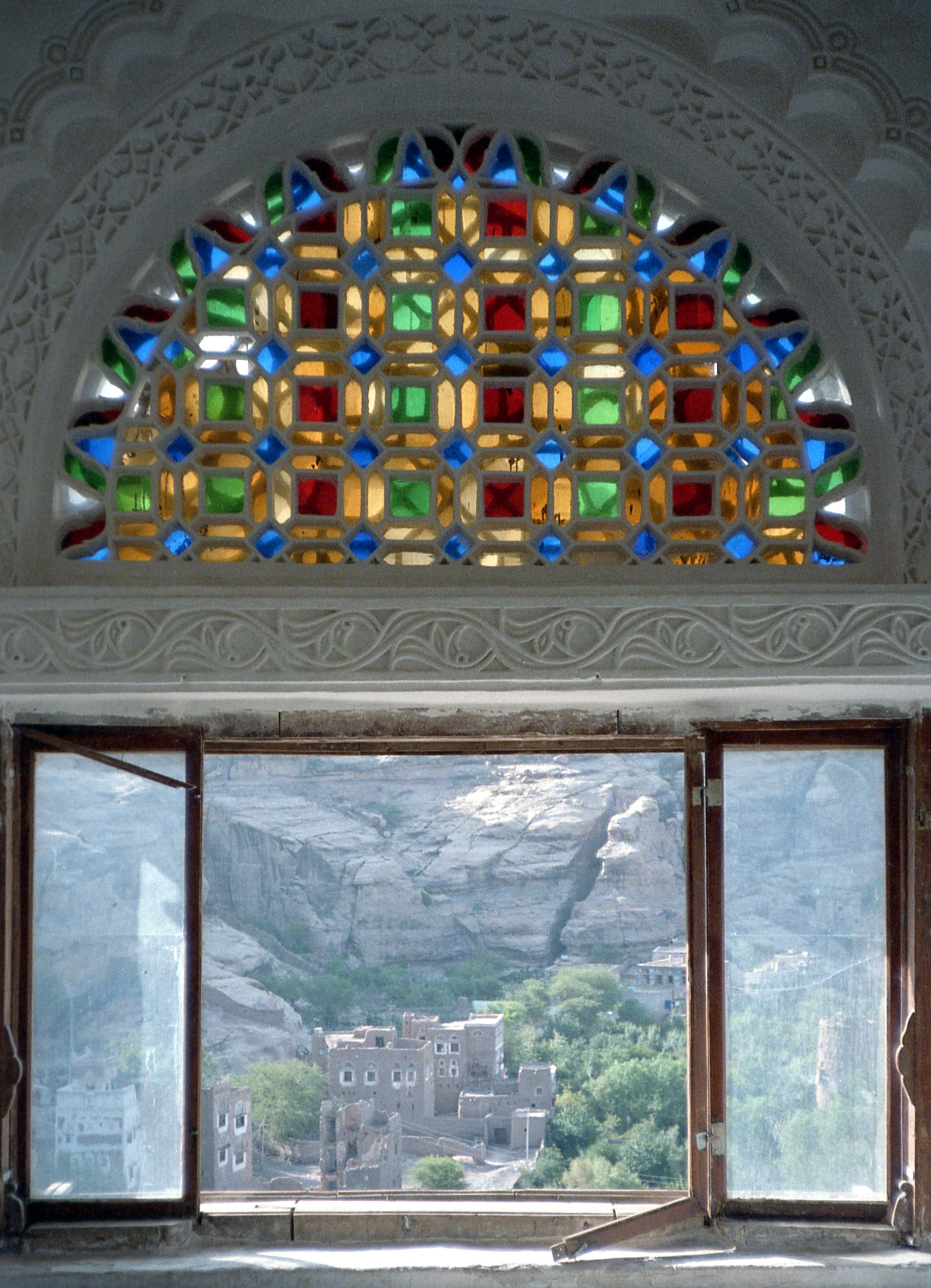 Window in Dhar Al Hajjar palace, Yemen